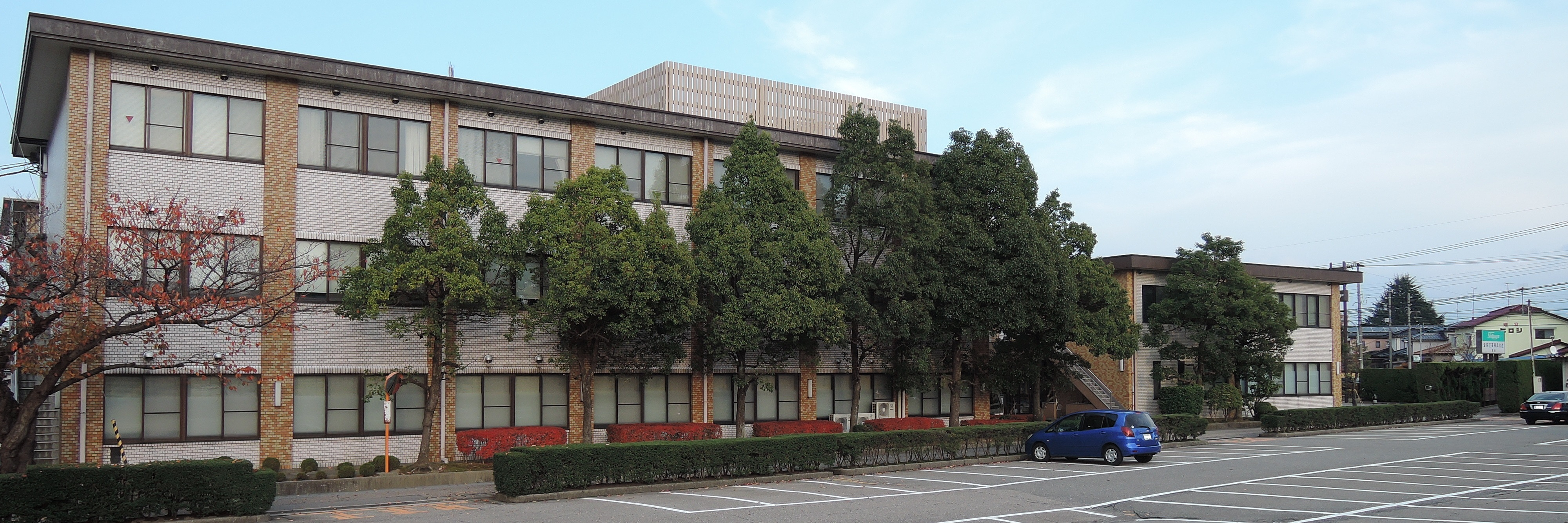 Headquarters of Shibuya Kogyo Co., Ltd.,Ishikawa prefecture,Japan